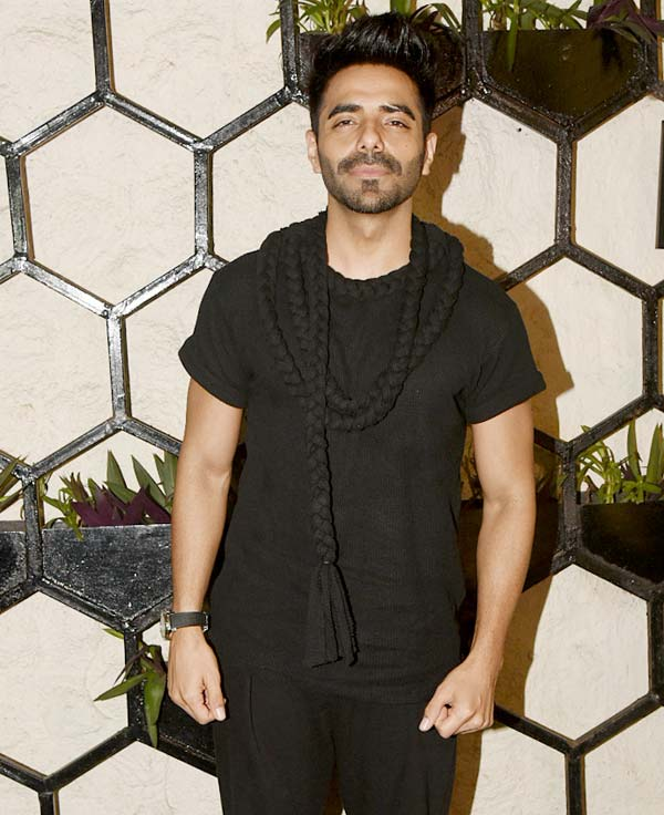 Aparshakti Khurana at Dinesh Vijan birthday bash